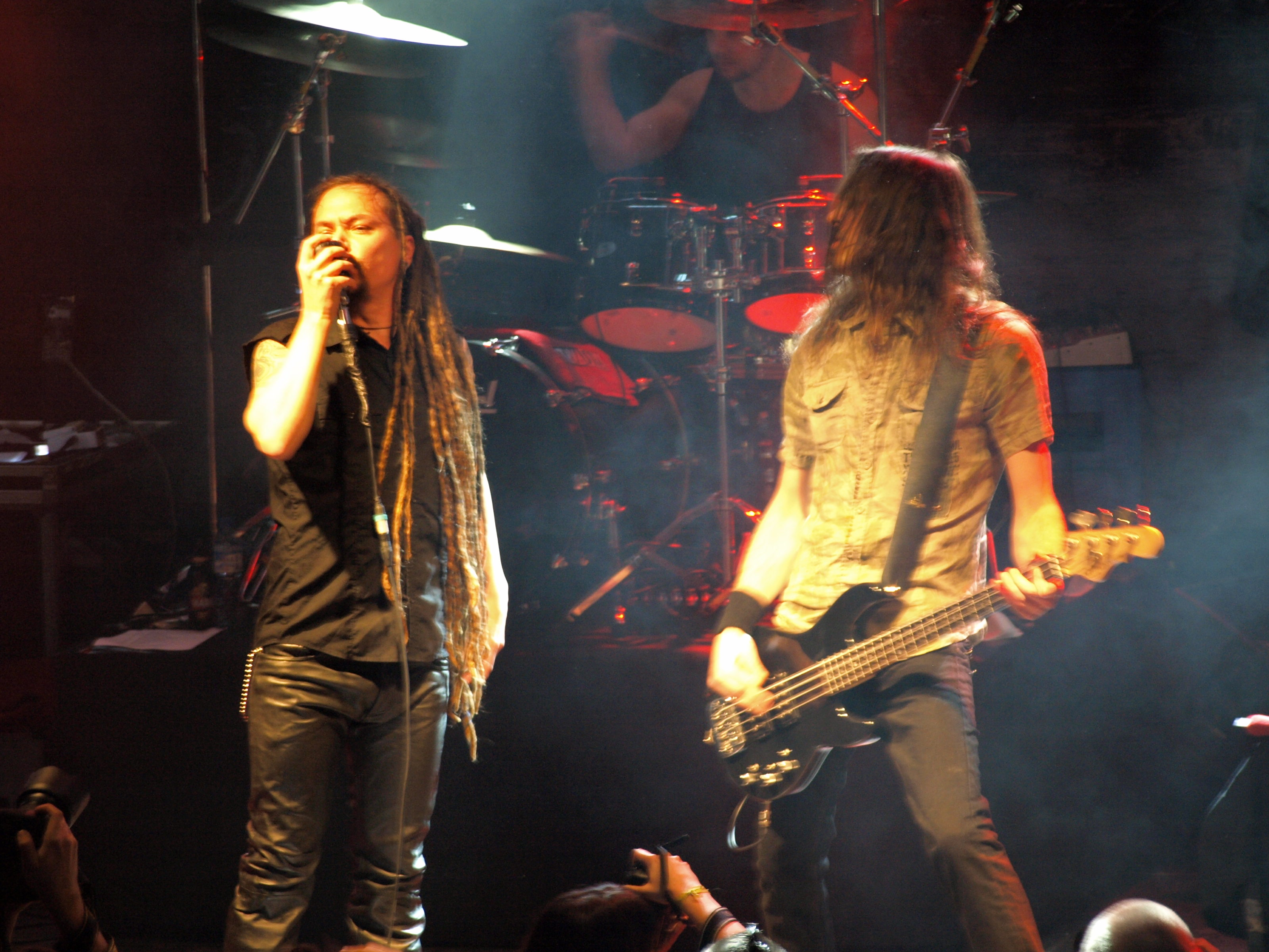 Finnish metal band Amorphis